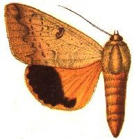 PLATE CCXIV.